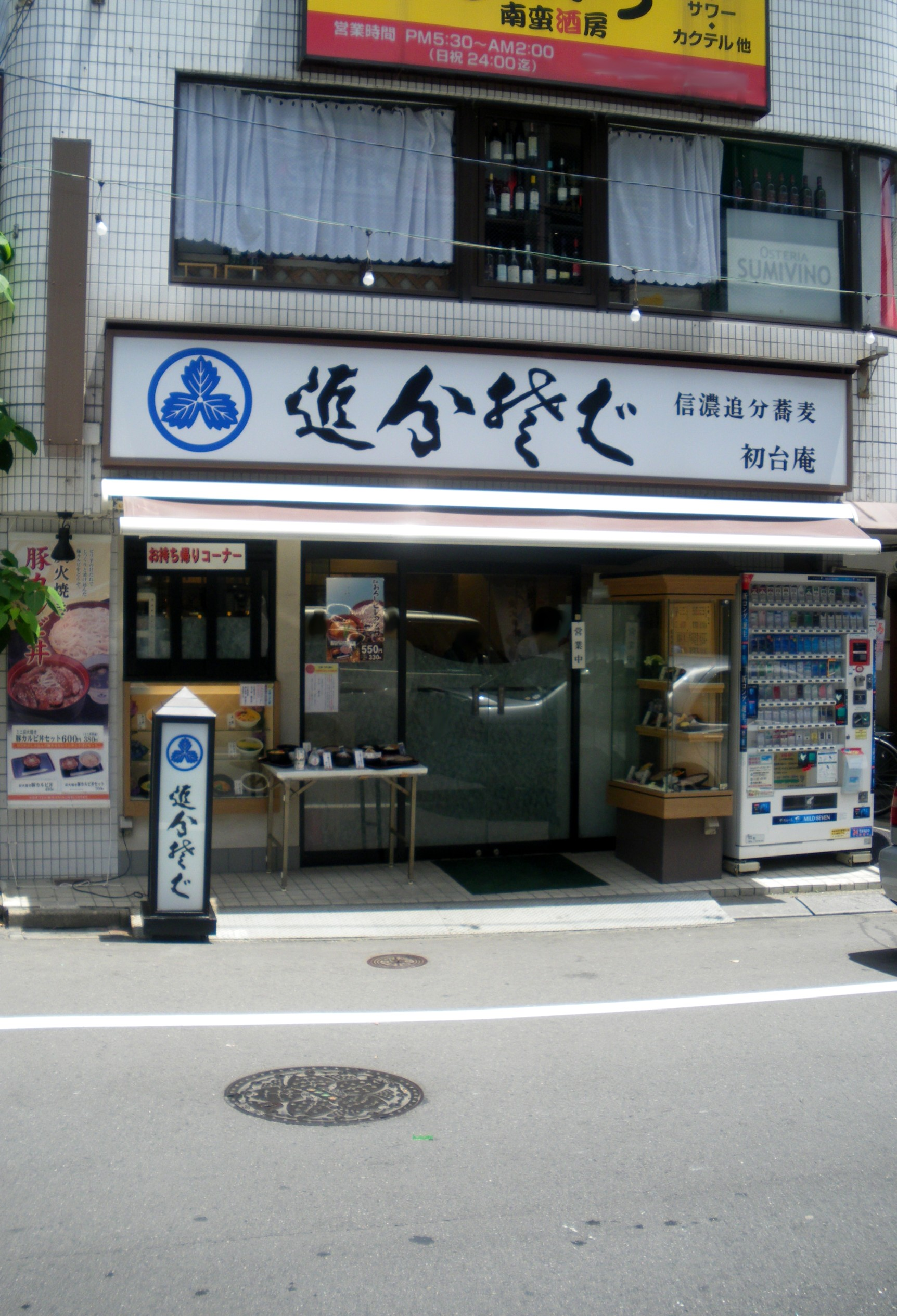 A photo of Oiwakesoba Hatsudaian,Hatsudai,Shibuya-ku,Tokyo,Japan.